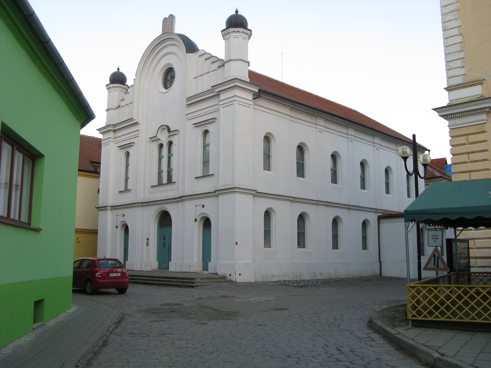 (former) synagogue in Břeclav